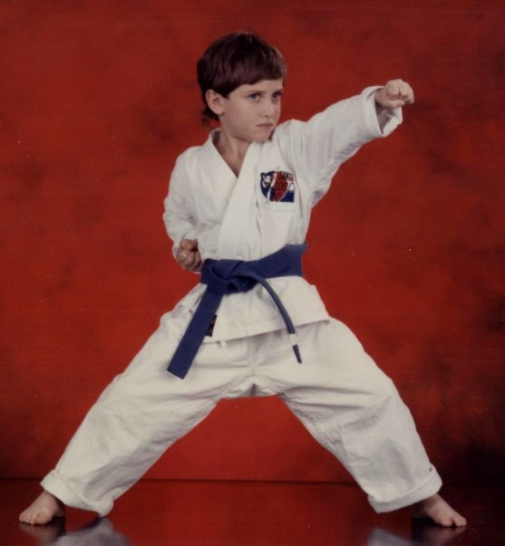 Bryce Papenbrook